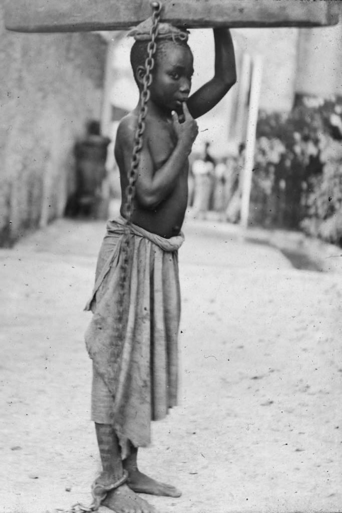 Photograph of an enslaved boy in Zanzibar. National Maritime Museum, in Greenwich, London, England, from the Michael Graham-Stewart collection. Description from source: This extraordinary lantern slide is inscribed: ‘An Arab master’s punishment for a slight offence. The log weighed 32 pounds, and the boy could only move by carrying it on his head. An actual photograph taken by one of our missionaries.’. From at least the 1860s onwards, photography was a powerful weapon in the abolitionist arsenal. Photographic images of slavery provided vivid and irrefutable evidence of the ongoing cruelty of the East African and Indian Ocean trades. They were often used as the basis for engravings reproduced in popular journals such as ‘The Graphic’ and ‘The Illustrated London News’.